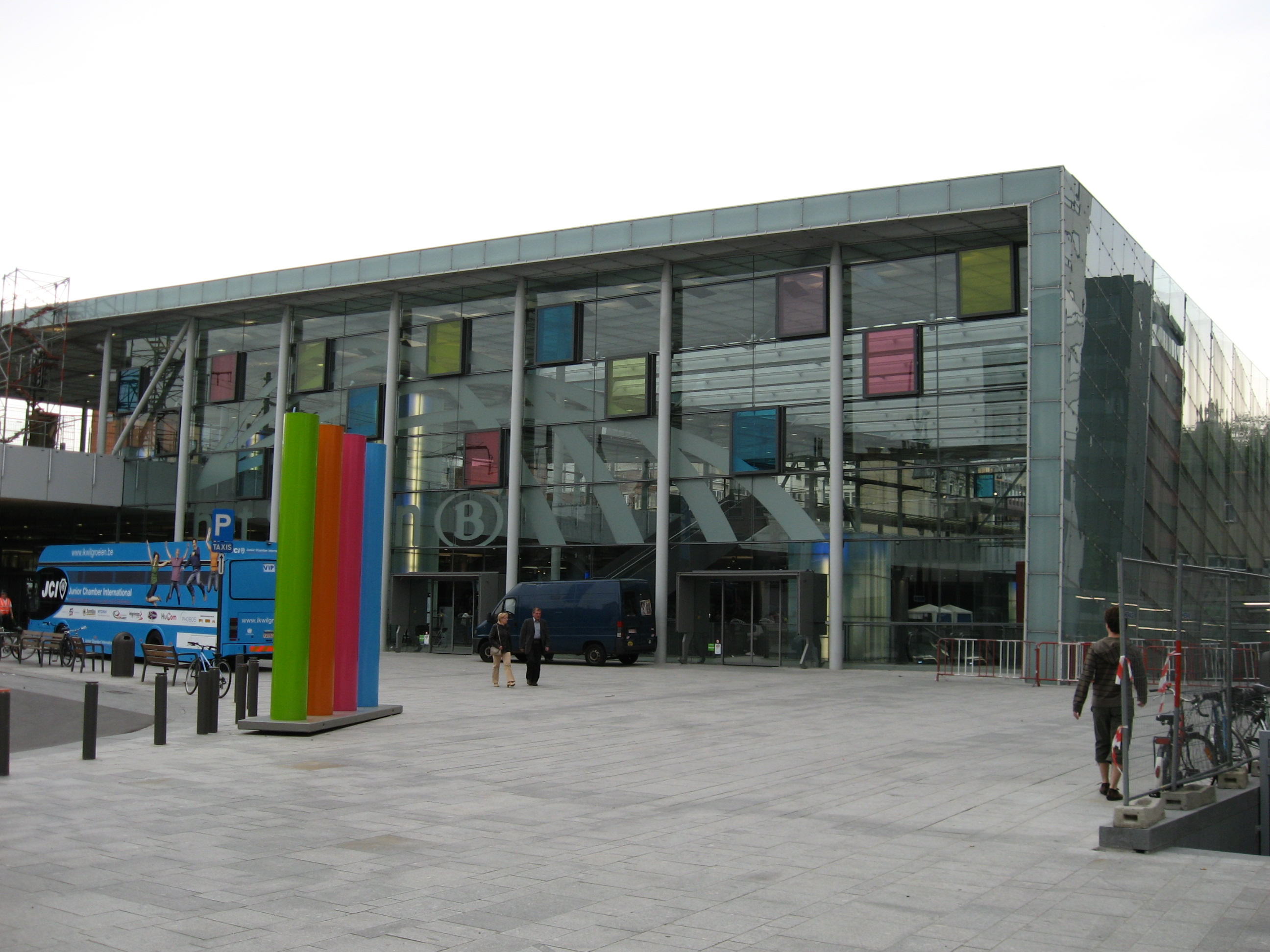 New entrance (Kievitstraat) to Antwerp central station